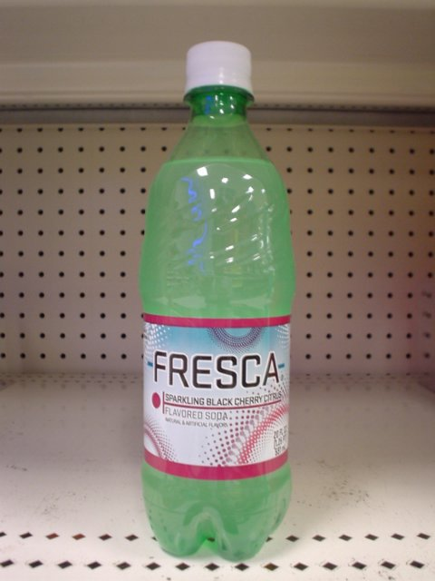 2005 Fresca Sparkling Black Cherry Citrus Flavor Soda in 20oz PET Bottles (USA)